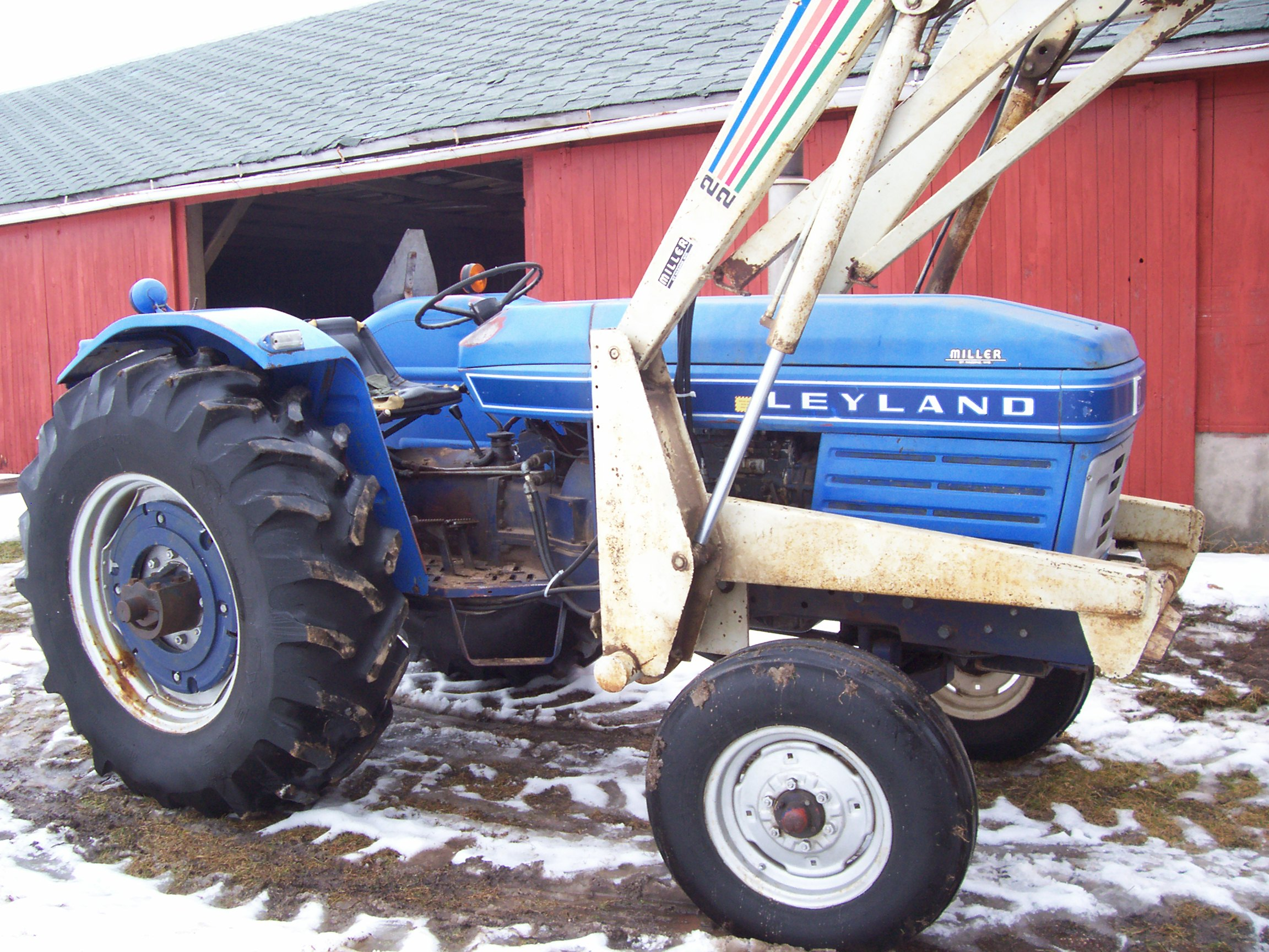 My grandfather's model 270 British Leyland tractor, purchased in the mid 1970s. It has an aftermarket loader that I used for snow removal. Photograph taken in Wisconsin, United States.